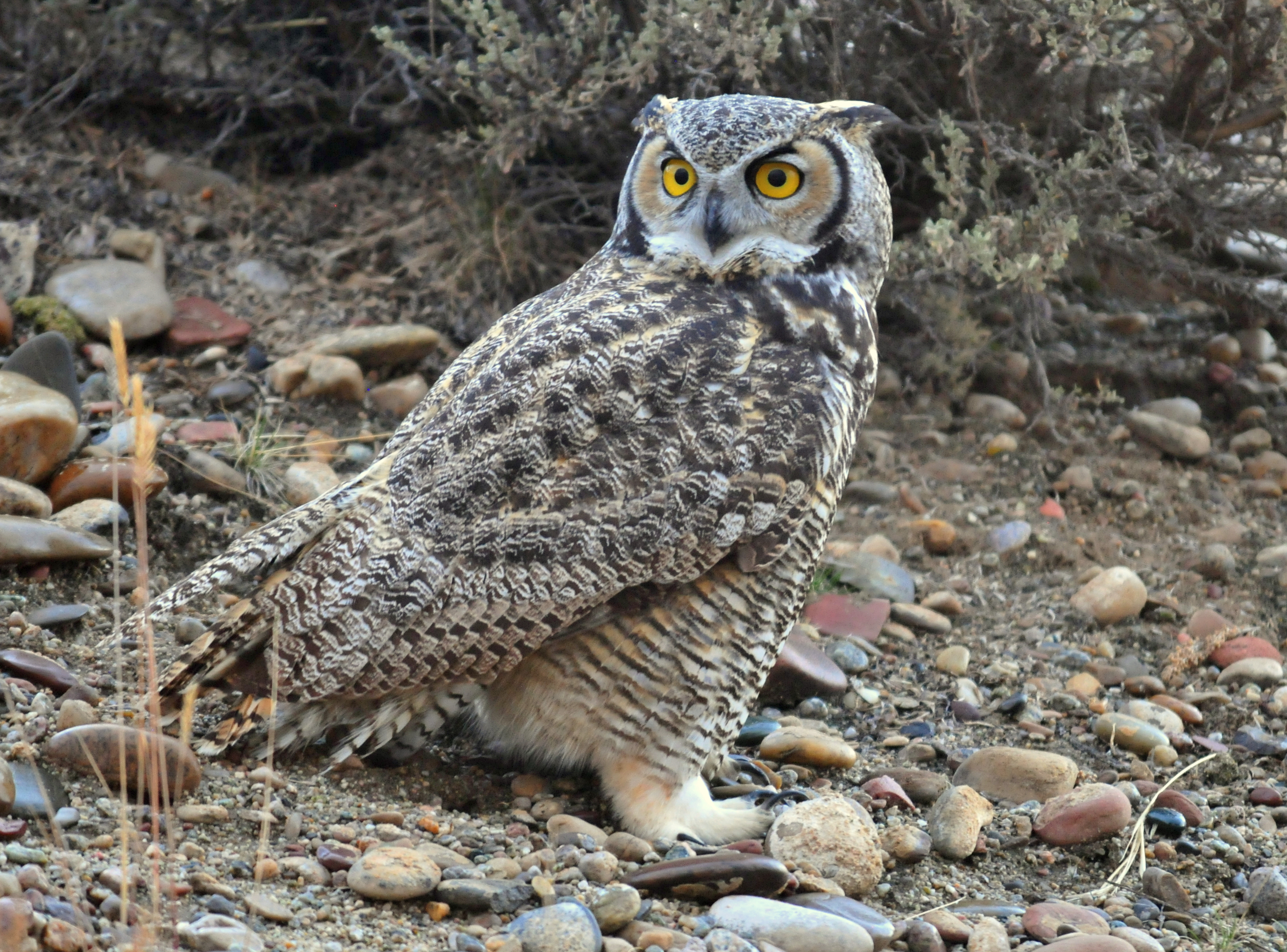 A great horned owl is perched on the transition from sage steppe to riparian habitats at Seedskadee NWR. Great horned owls are common in the river valley and their calls can be heard up and down the river on calm nights. They are a significant predator on Seedskadee NWR and there are very few things they will not eat. Great horned owls have the most diverse diet of all North American raptors. They eat mostly mammals and birds at Seedskadee NWR , especially cottontail rabbits, white-tailed jackrabbits, meadow voles, mice, and American Coots. They also kill and eat many other species including least chipmunks, white-tailed prairie dogs, bats, feral house cats, ducks, mergansers, grebes, rails, other owls, hawks, crows, ravens, doves, and starlings. They are one of the few to kill porcupines and striped skunks. They supplement their diet with reptiles, insects, fish, invertebrates, and sometimes carrion. They are primarily nocturnal hunters and use their excellent hearing and night vision to locate prey. They will occassionally hunt in broad daylight, but run the risk of other raptors harrassing them severely. We have spotted both prairie falcons and Northern harriers taking turns driving great horned owls out of their territory. Photo: Tom Koerner/USFWS